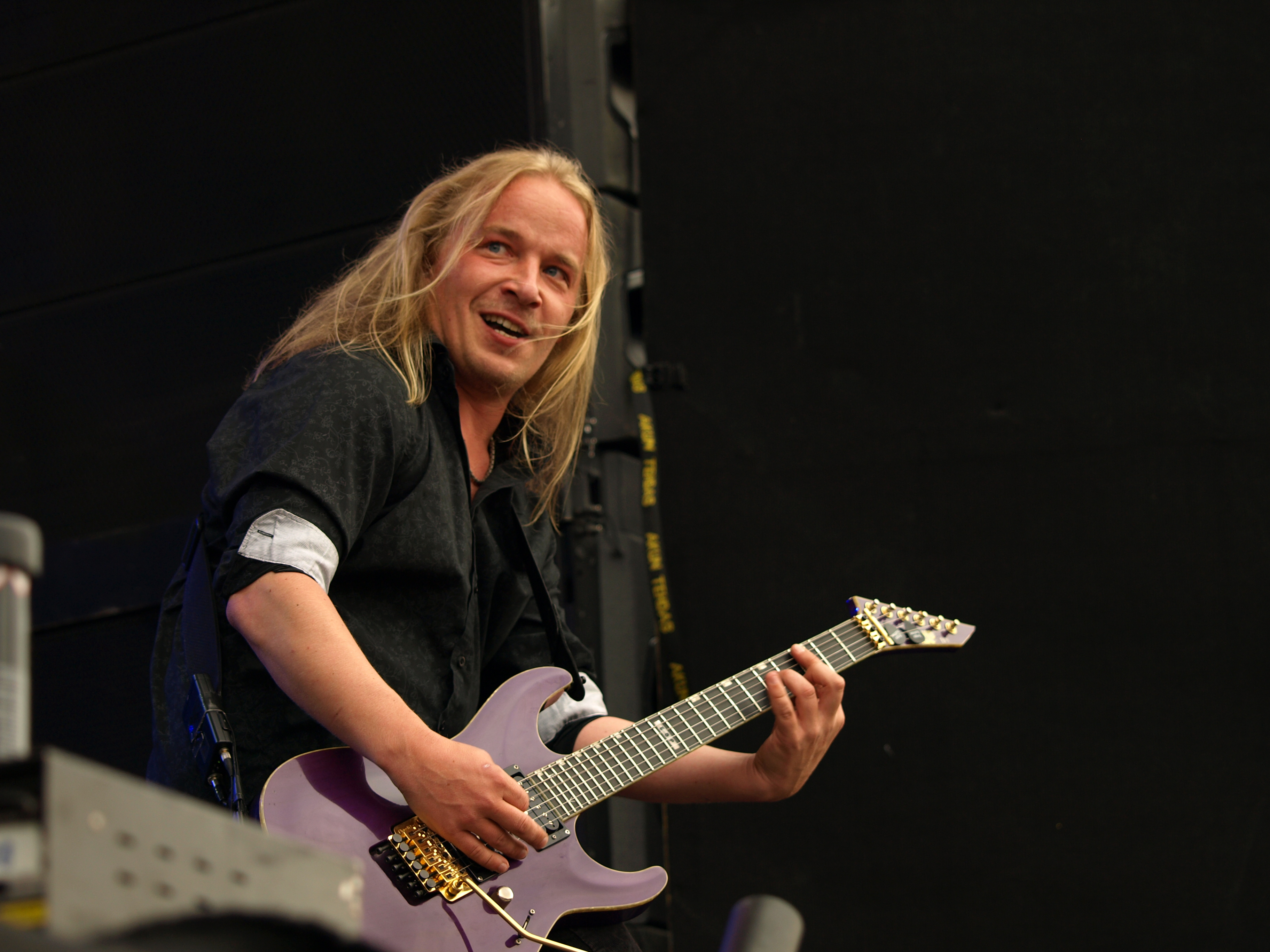 Finnish band Nightwish at Tuska Open Air 2013